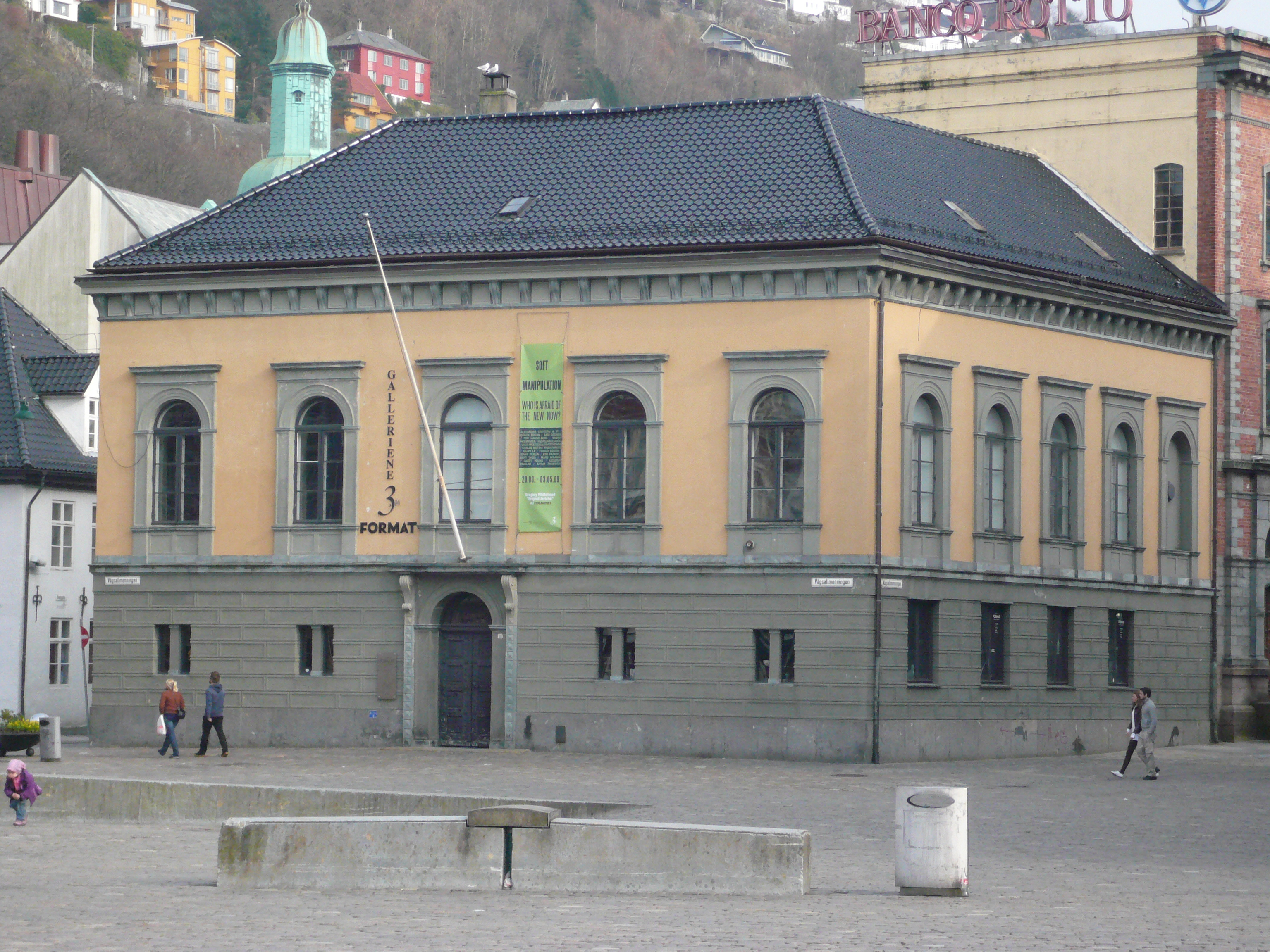 Norges Bank at Vågsallmenningen 12, Bergen, Norway